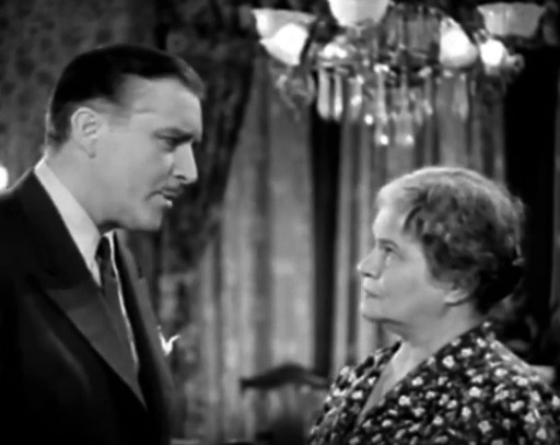 John Boles and Lillian Elliott in Road to Happiness - cropped screenshot